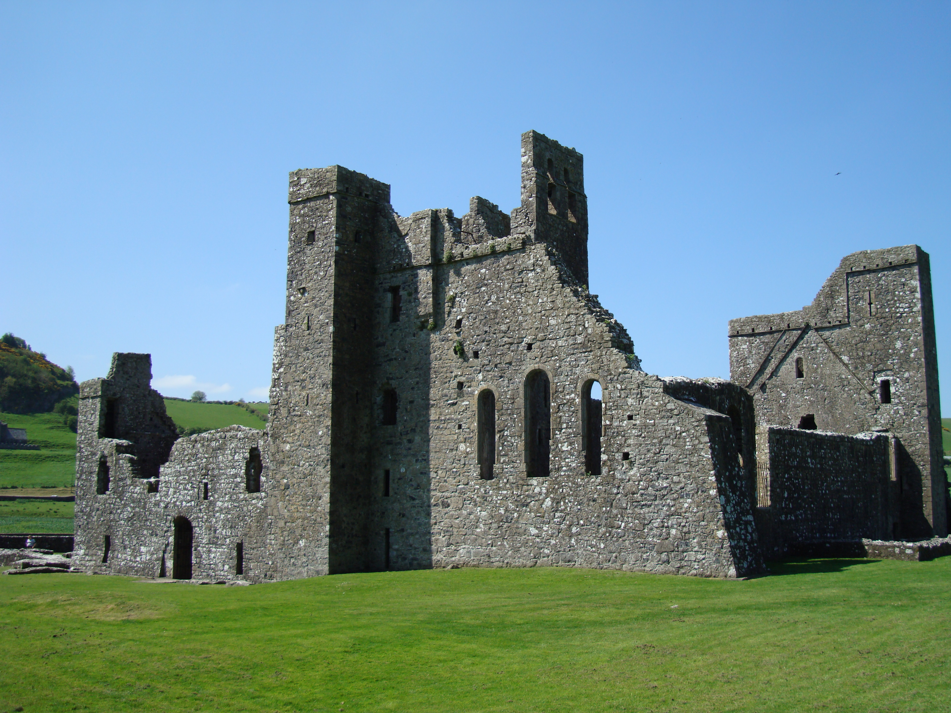 Photograph of the remains of Fore Abbey, Co. Westmeath, Republic of Ireland